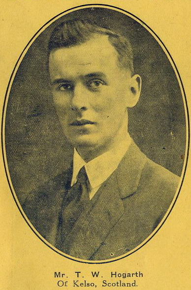 Thomas William Hogarth (1901-1999), born in Scotland, later Australian veterinarian, dog breeder, dog judge and author of books on dogs. Dog Show Catalogues from 1929, Newcastle, Australia